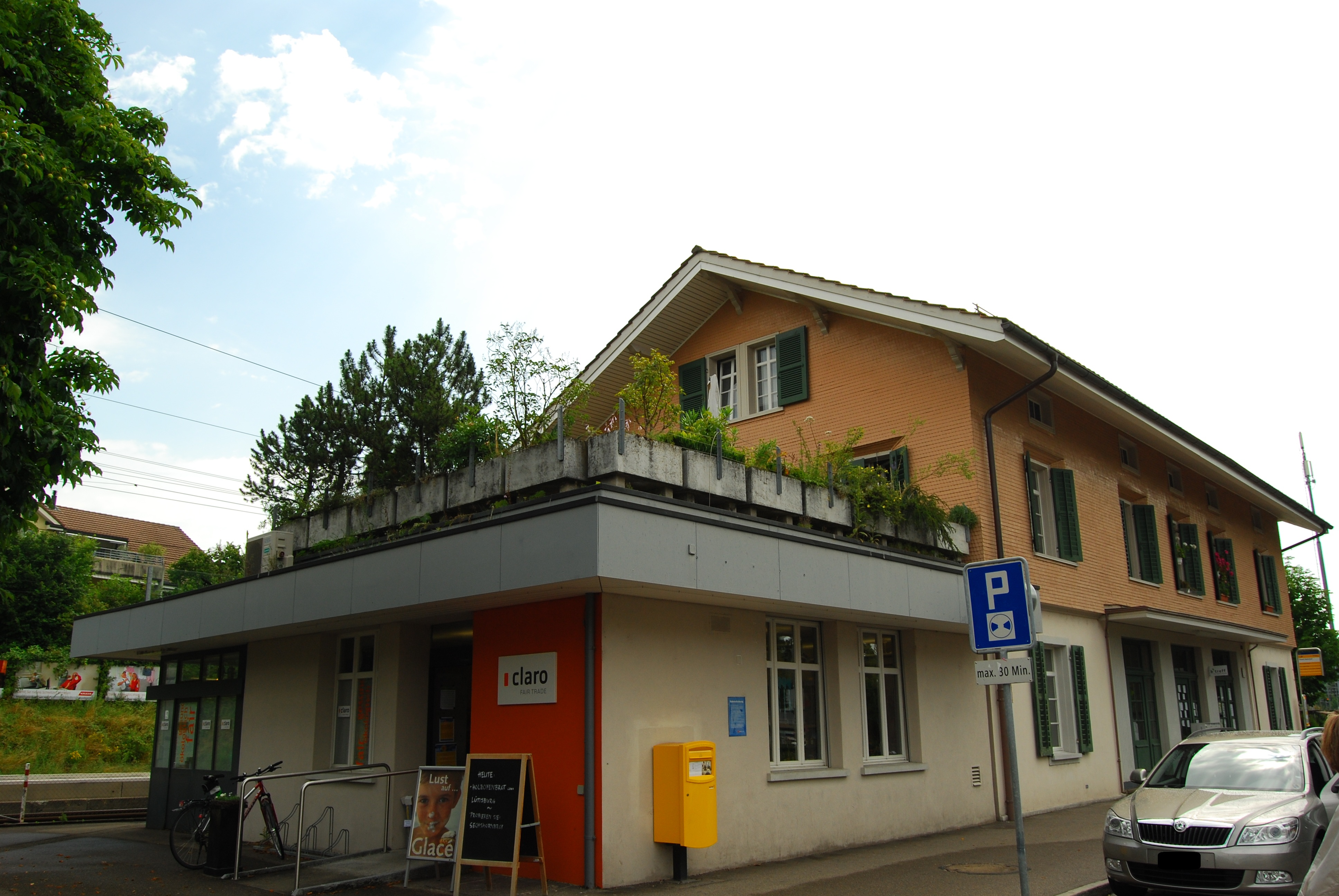 Train station of Flawil, canton of St. Gallen, SwitzerlandEsperanto: Flawil, Kantono Sankt-Galo, Svislando